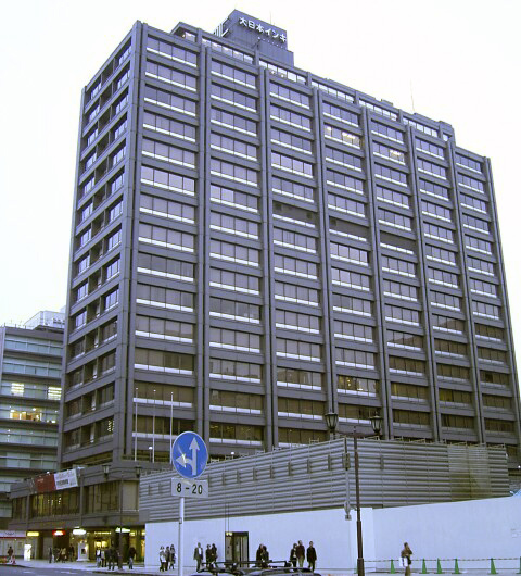 Dainippon Ink & Chemicals/DIC Head Office